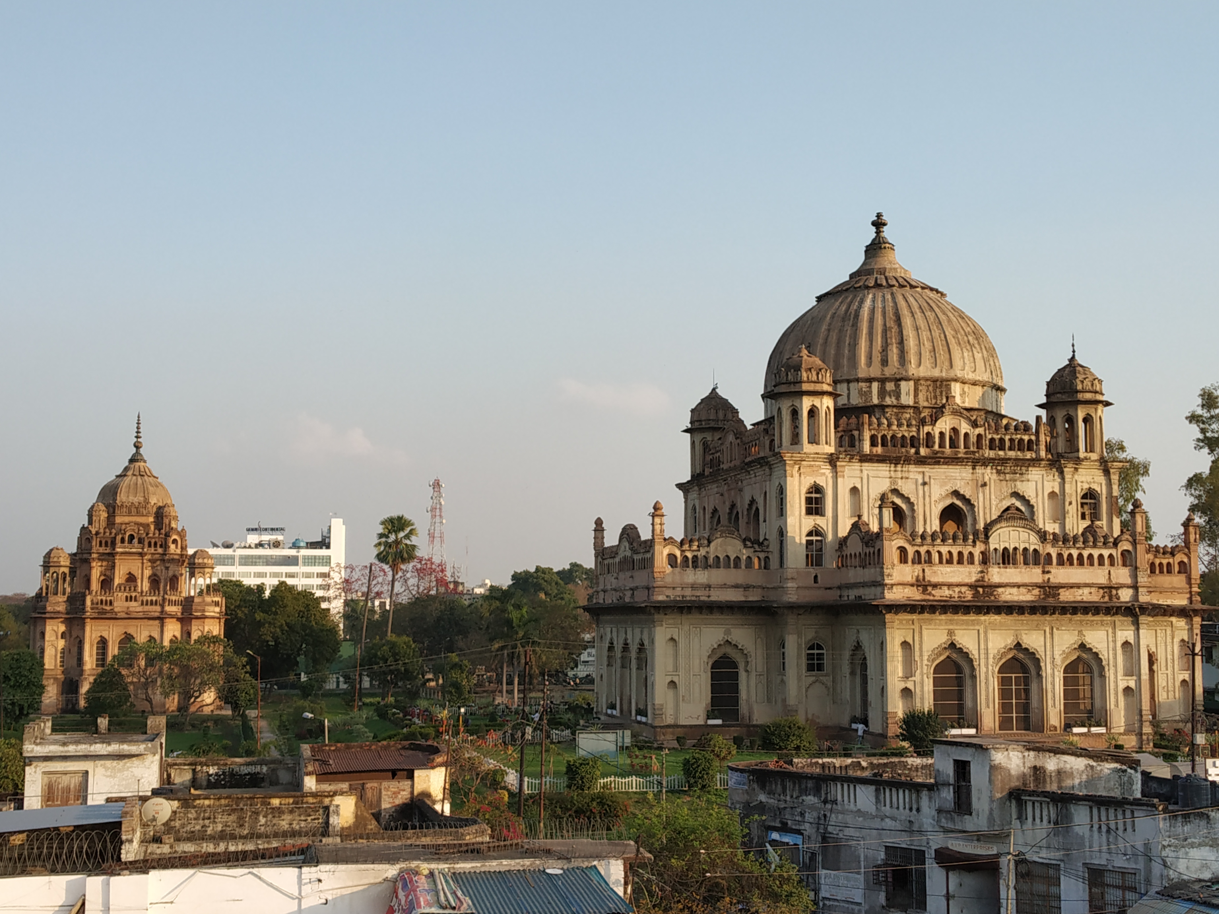 Nawab Saadat Ali Khan (1752-1814) was buried next to his wife Begum Khurshid Zadi in the remaining twin tomb of Qaiserbagh. Tomb is located in the area of Qaisar Bagh in the city of Lucknow, Uttar Pradesh, India.